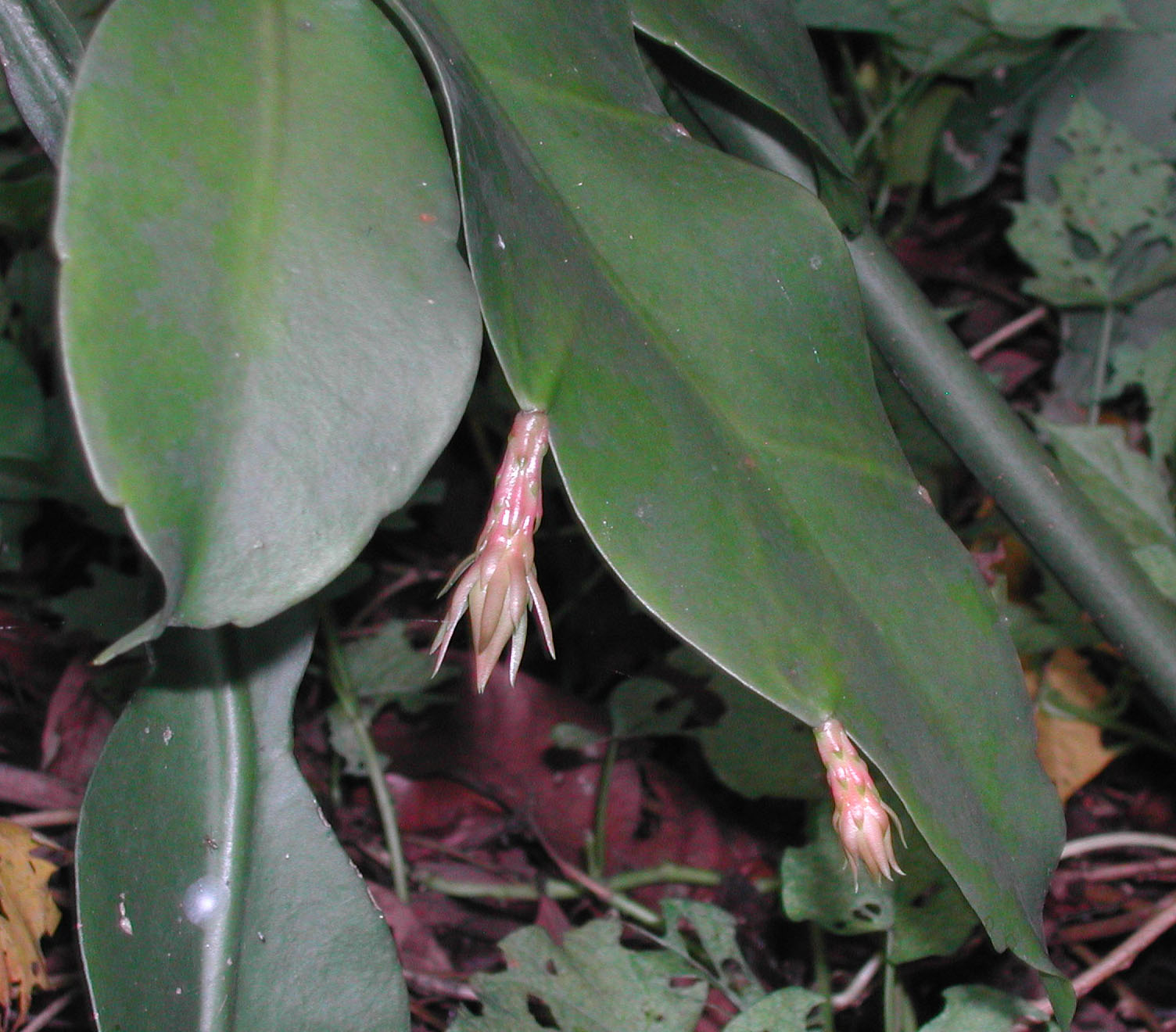 Flower buds Epiphyllum oxypetalum. Longer bud about 4 cm long.